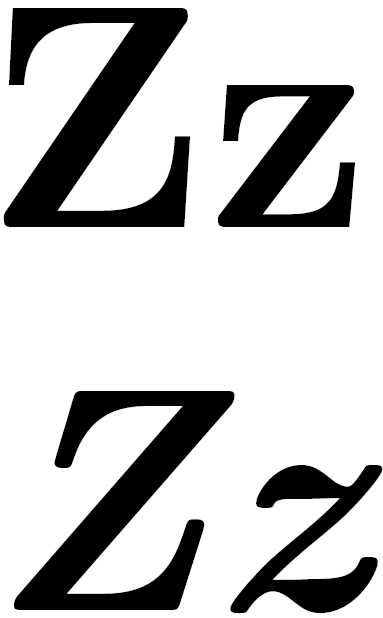 Latin letter Z